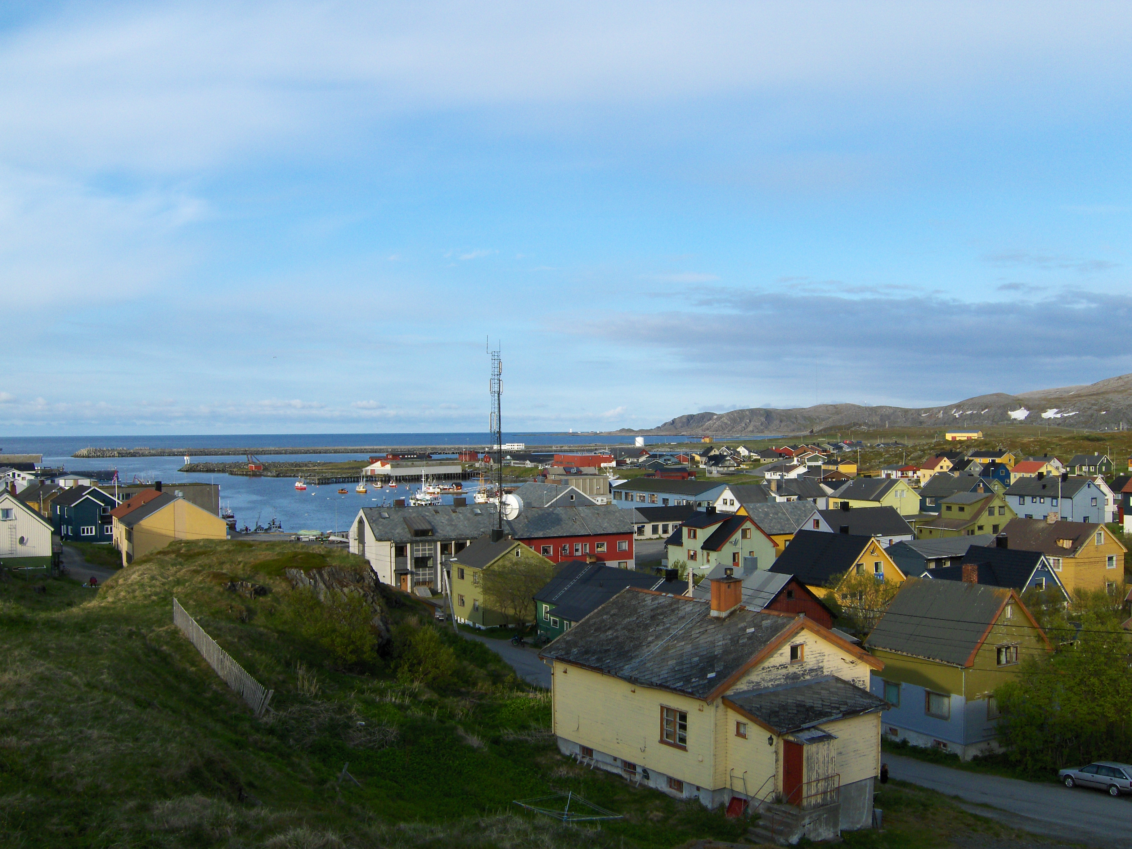 A view over Berlevåg with the harbor and the two big piers in the background...